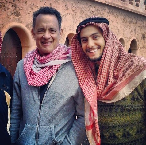 Tom on set of A Hologram for the King on 12/03/14.